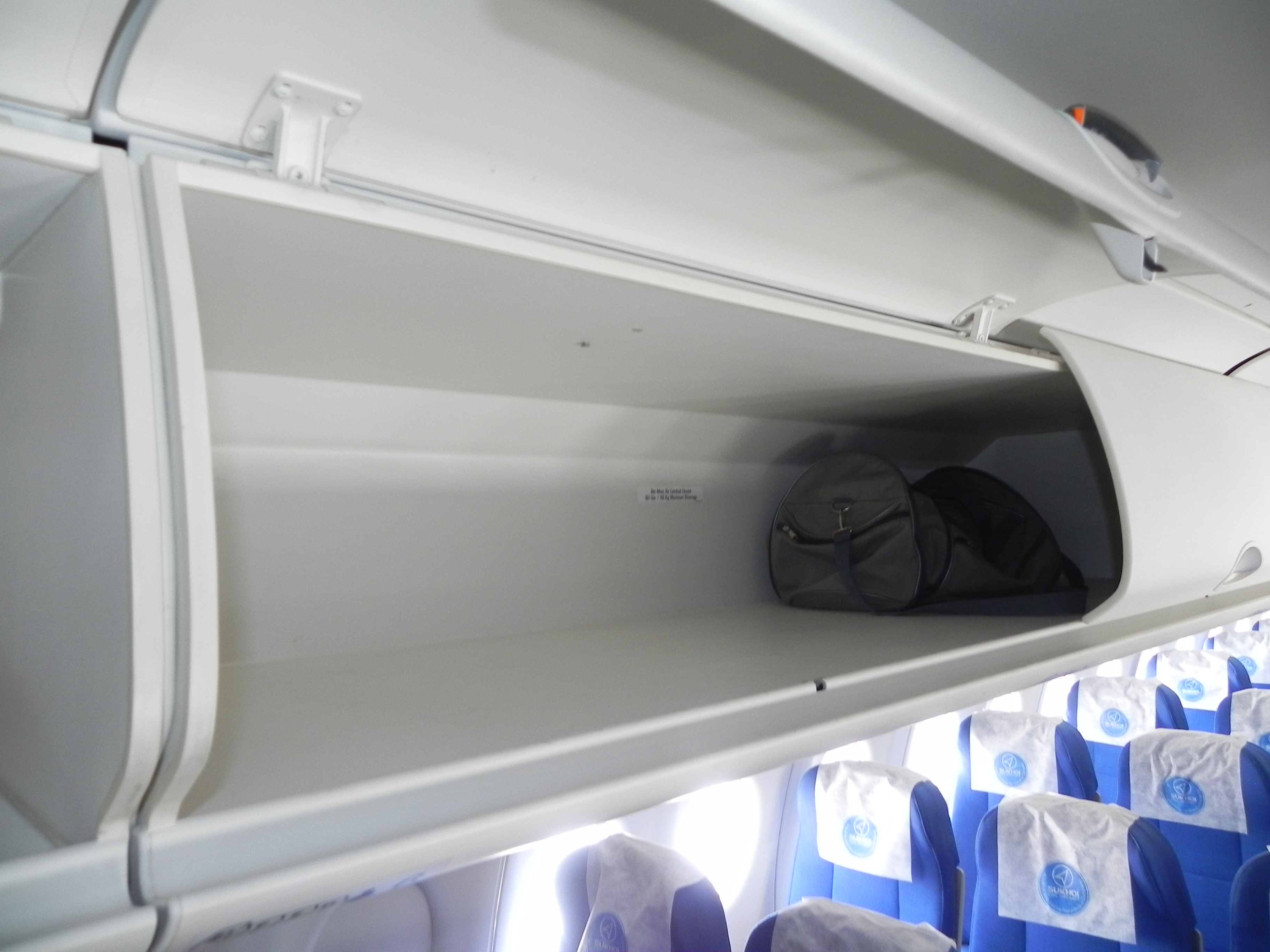 From October 12 until 17, the fourth SSJ100 prototype was at Toluca Airport for additional certification trials on expanding operational conditions at the high altitude airports Read more... bit.ly/qjRAUb